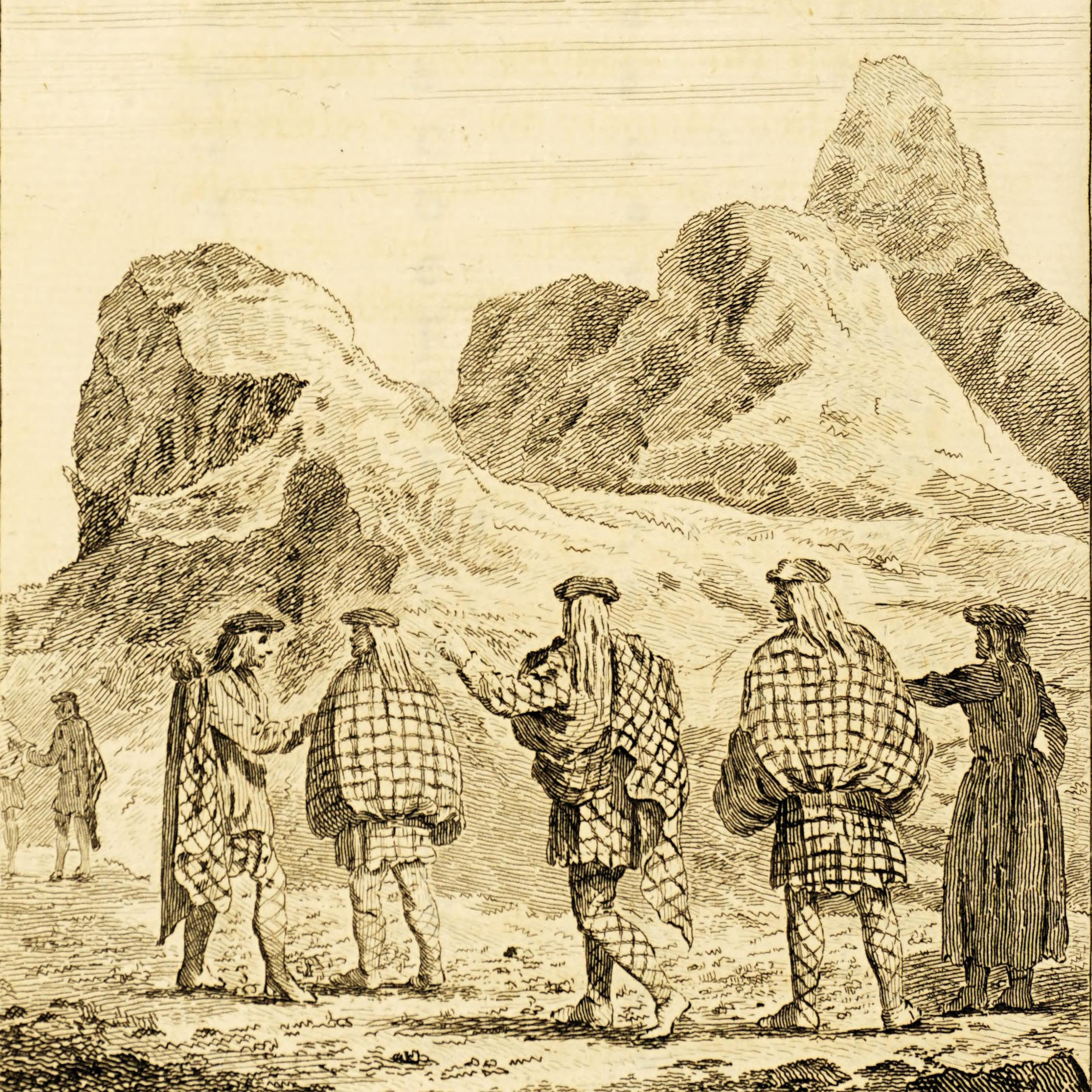 A group of men in belted plaids in mountains in the North of Scotland.